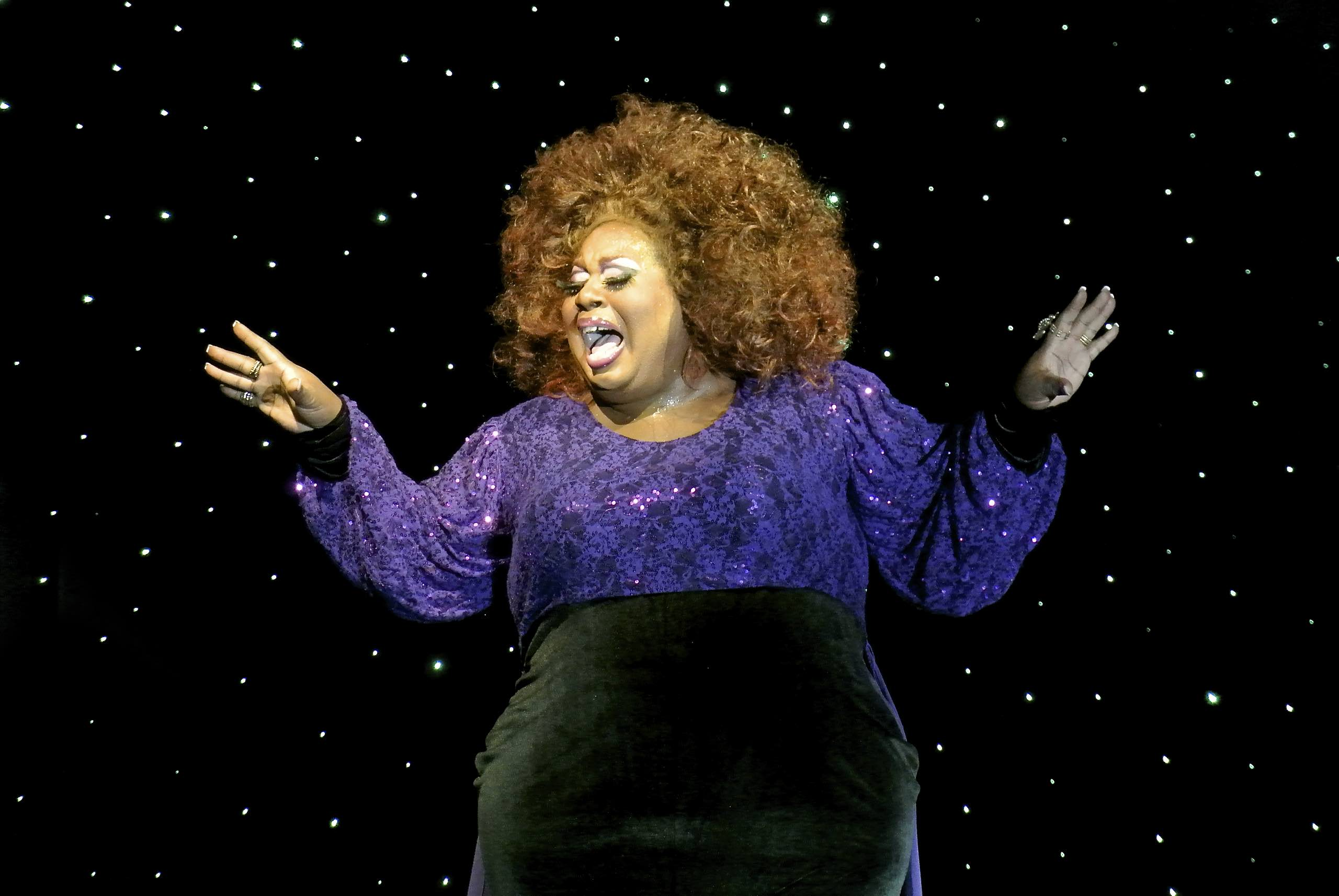 Latrice Royale singing on the cruise